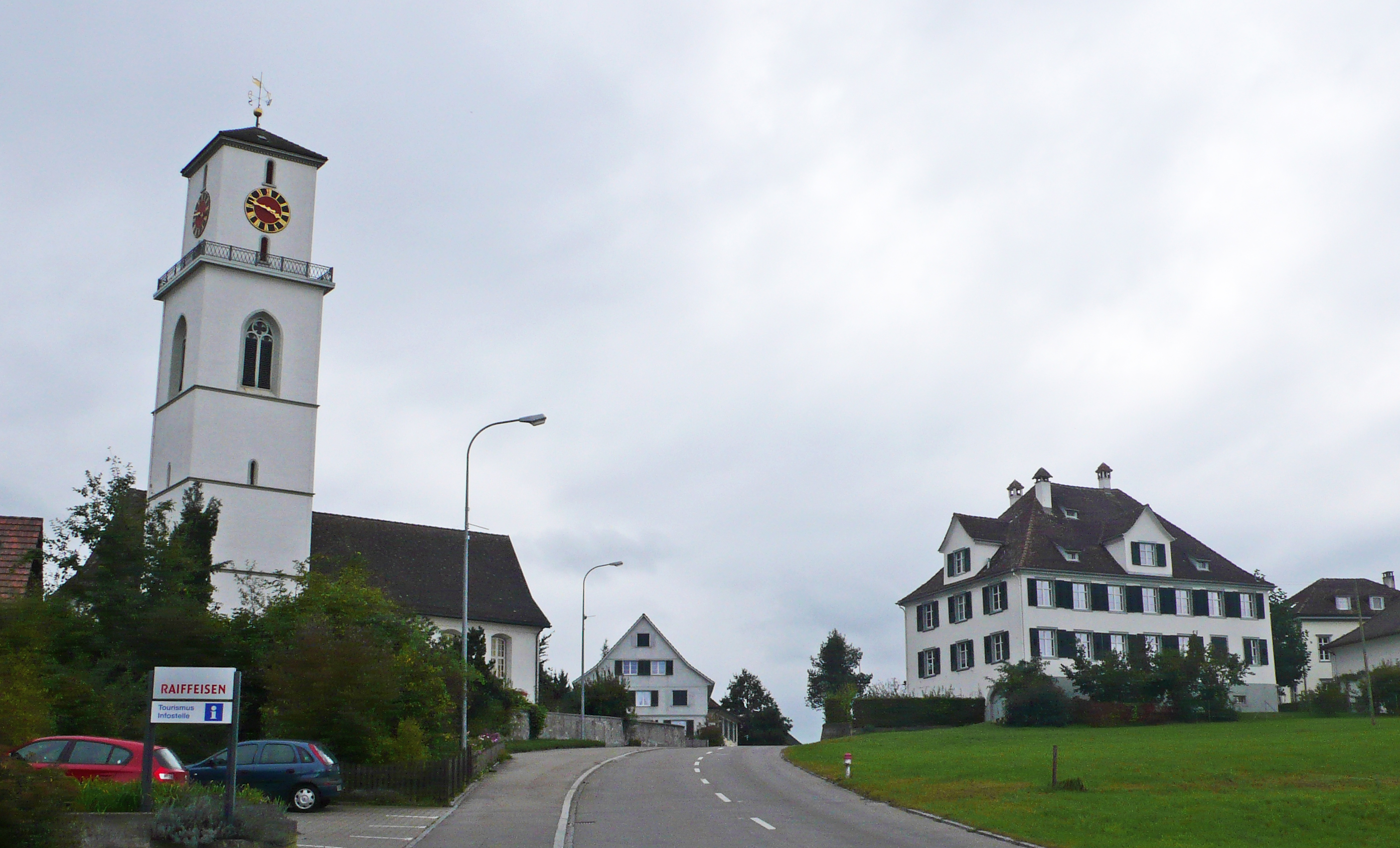 Church and rectories (Protestant in the middle, Roman Catholic to the right) of Güttingen, Switzerland.